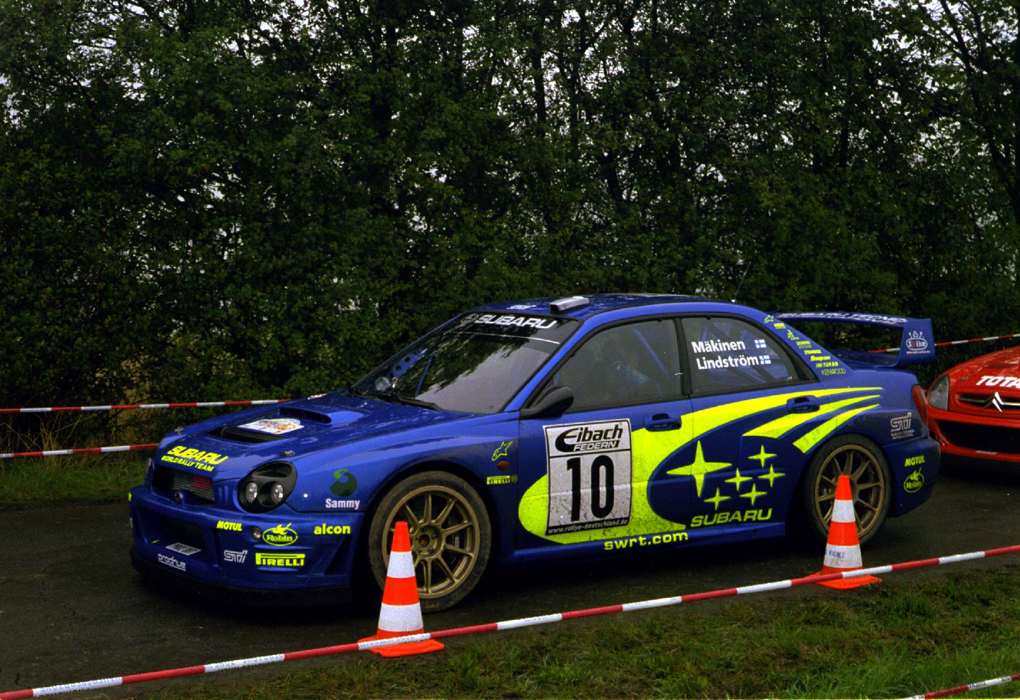 Tommi Mäkinen in Subaru Impreza WRC 2002 during Rallye Deutschland